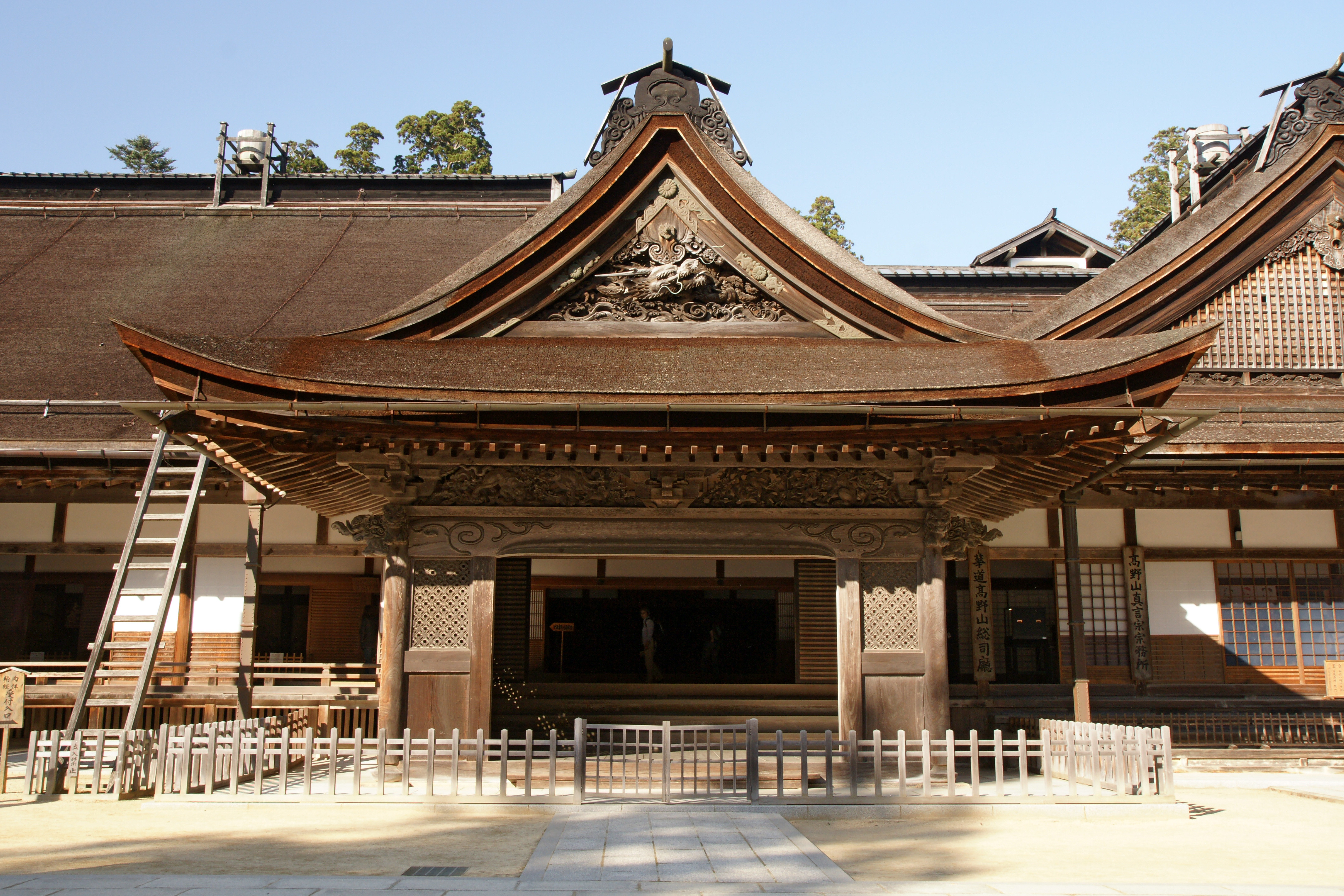 Kongōbu-ji in Mount Kōya, Wakayama prefecture, Japan.